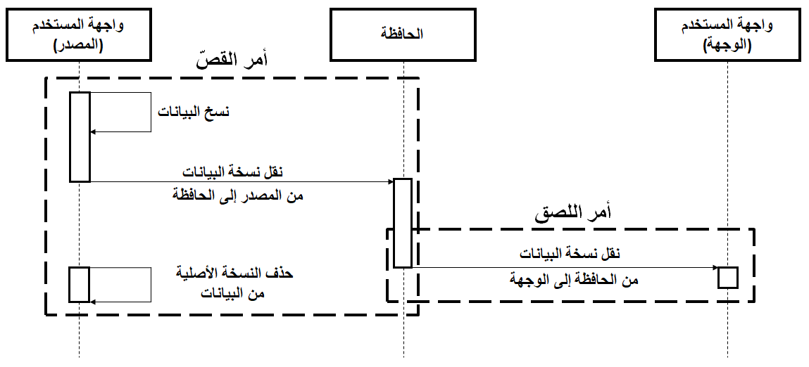 Sequence diagram of the cut-paste operation.